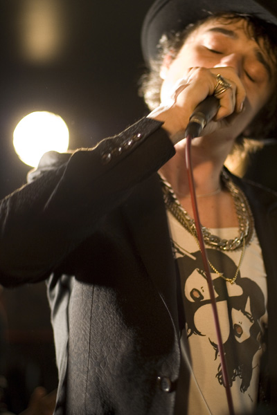 Pete Doherty at Studio 88 on April the 20th, 2007.